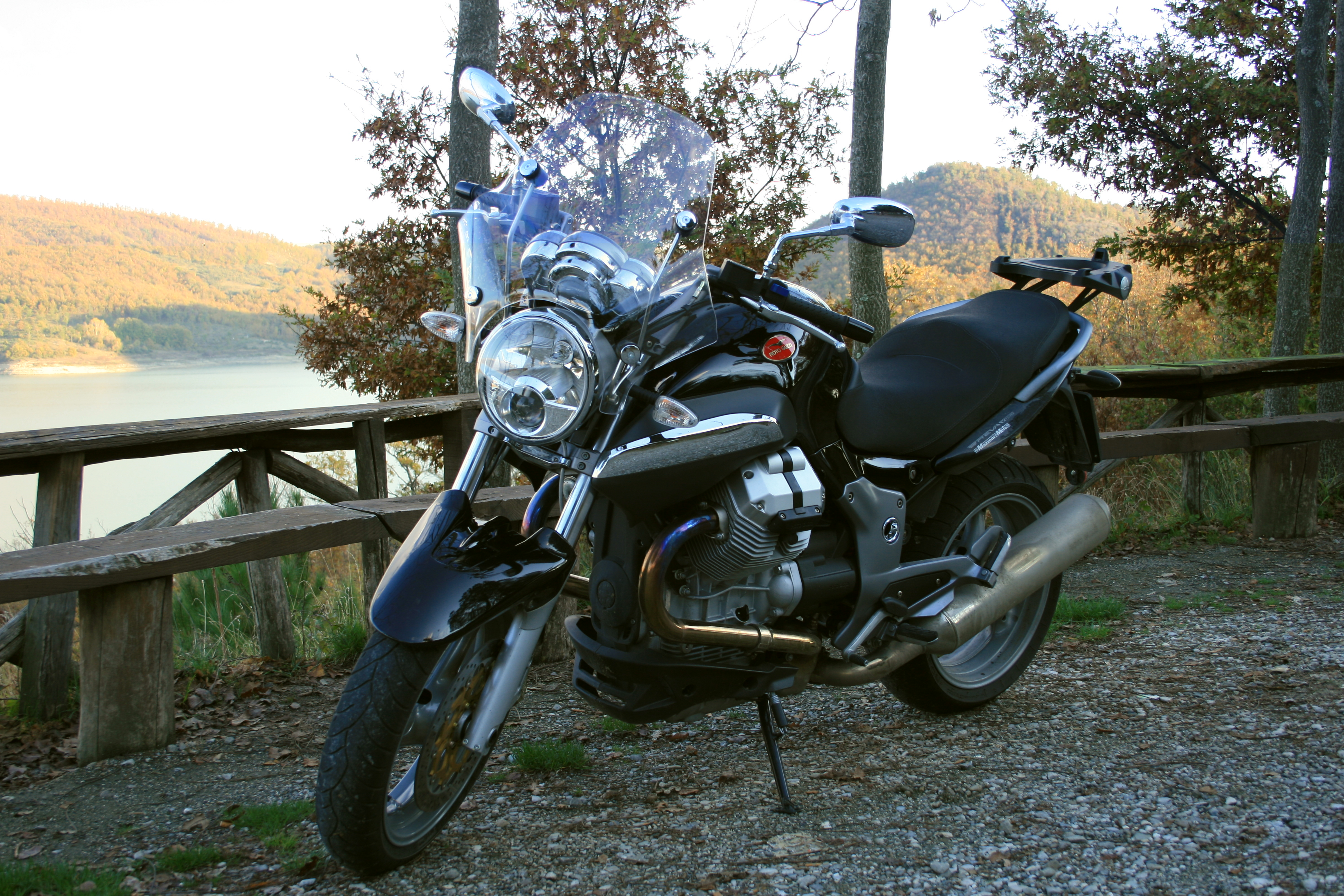 Moto Guzzi Breva 850